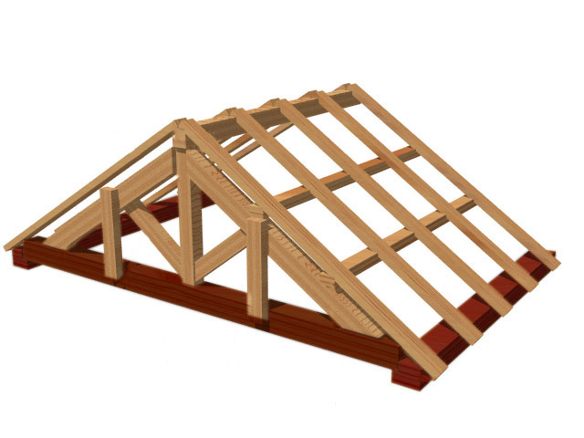 Roof plate. Derivative work of File:Yogoya - Japanese Roof Structure.jpg